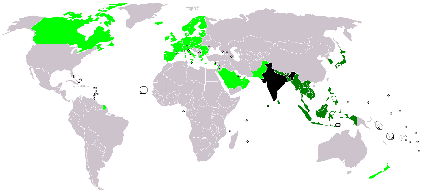 India Free Trade Agreements. Black = India Dark green = Current FTAs Light green = FTAs in negotiations or signed, but not ratified